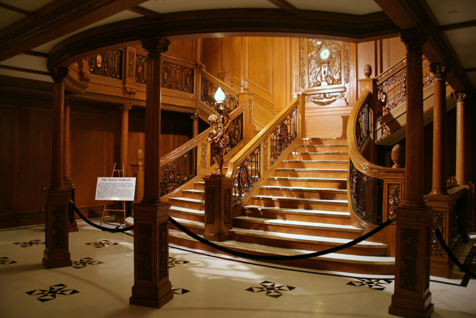 The phrase Grand Staircase of the Titanic has been used to refer to the first-class entrance aboard the Titanic which contained a large ornate staircase located in the first-class section of the White Star liner Titanic. The staircase has been depicted most notably in the film Titanic. The staircase is often used by submersibles as an entry point into the sunken wreck as it is now a huge hole, which provides easy access to the ship's interior. Considered to be two of the most luxurious appointments on the ship, the two Grand Staircases were designed to be used only by first-class passengers. The fore Grand Staircase descended five levels down from the Boat Deck to the D Deck in the famous appearance and continues down to E-Deck as an ordinary stairway. The staircase featured large glass domes that allowed natural light to enter the space during the daytime, oak panelling and detailed carvings, paintings, bronze cherubs (which served as lamp supports on the middle railings), candelabras, and other details. The staircase featured a clock surrounded by an intricate oak carving depicting Honour and Glory crowning Time. There are no reliable sources that describe what occurred on the fore Grand Staircase during the ship's sinking. Photographs taken by explorer Robert Ballard show that the steel infrastructure of the staircase is intact, and that the wood was likely eaten away by microbes. A 360-degree view of the fore staircase as it currently appears can be seen on the Encyclopedia Titanica website. It stands on the wreck of the Titanic as a vast empty hole, within which submersibles and cameras can gain easy access to the ship's interiors. The steel structure and even some of the detail on the balustrades of the staircase can still be made out, and some of the light fittings are still exactly as they were in 1912.